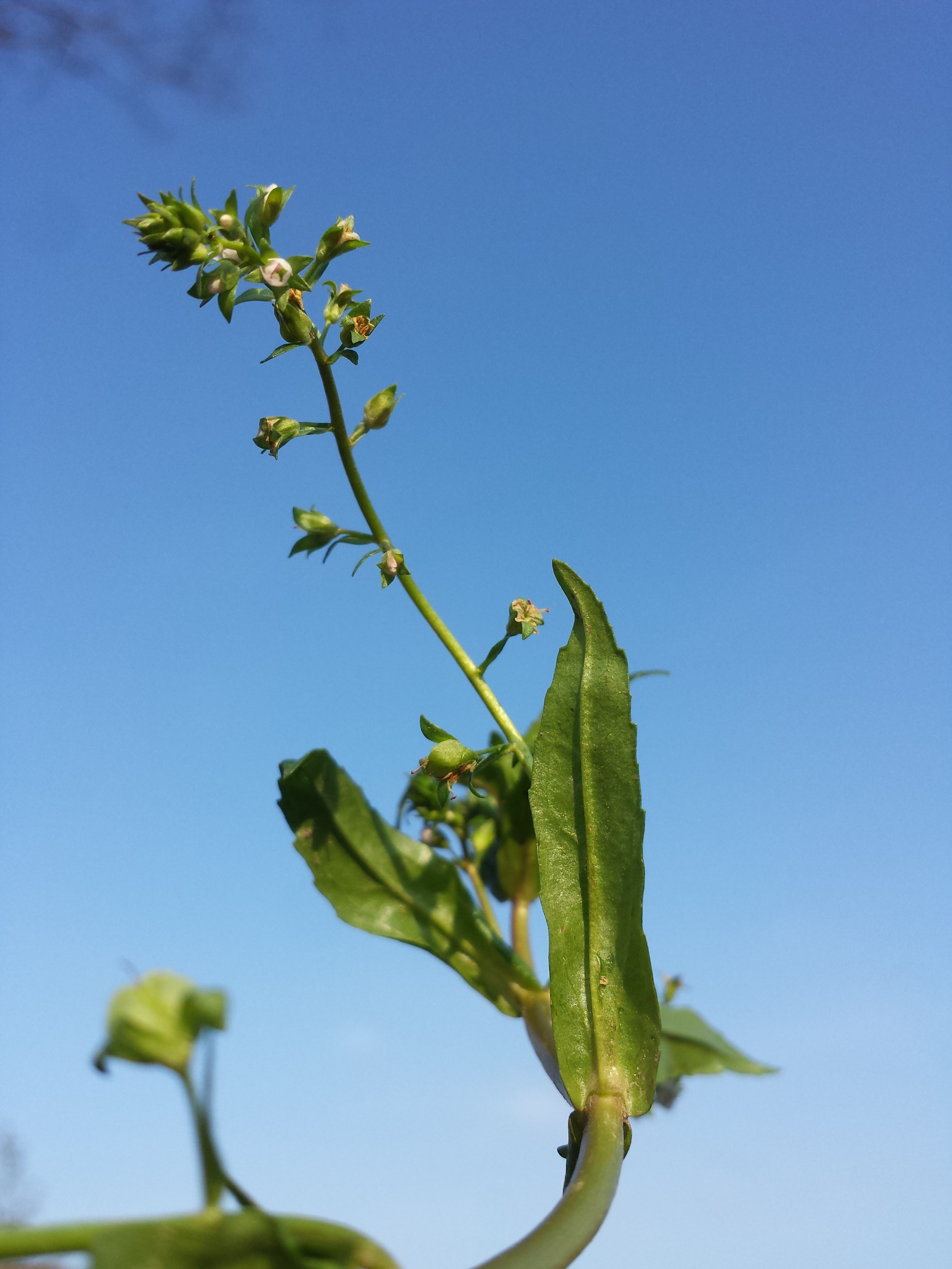 Stem with leaves Taxonym: Veronica catenata ss Fischer et al. EfÖLS 2008 ISBN 978-3-85474-187-9 Location: pond near Goldenes Bründl, Rohrwald, district Korneuburg, Lower Austria - ca. 225 m a.s.l. Habitat: shore of a pond